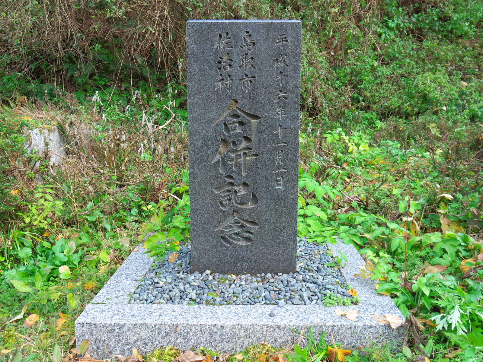 Monument of the merger of Tottori and Saji